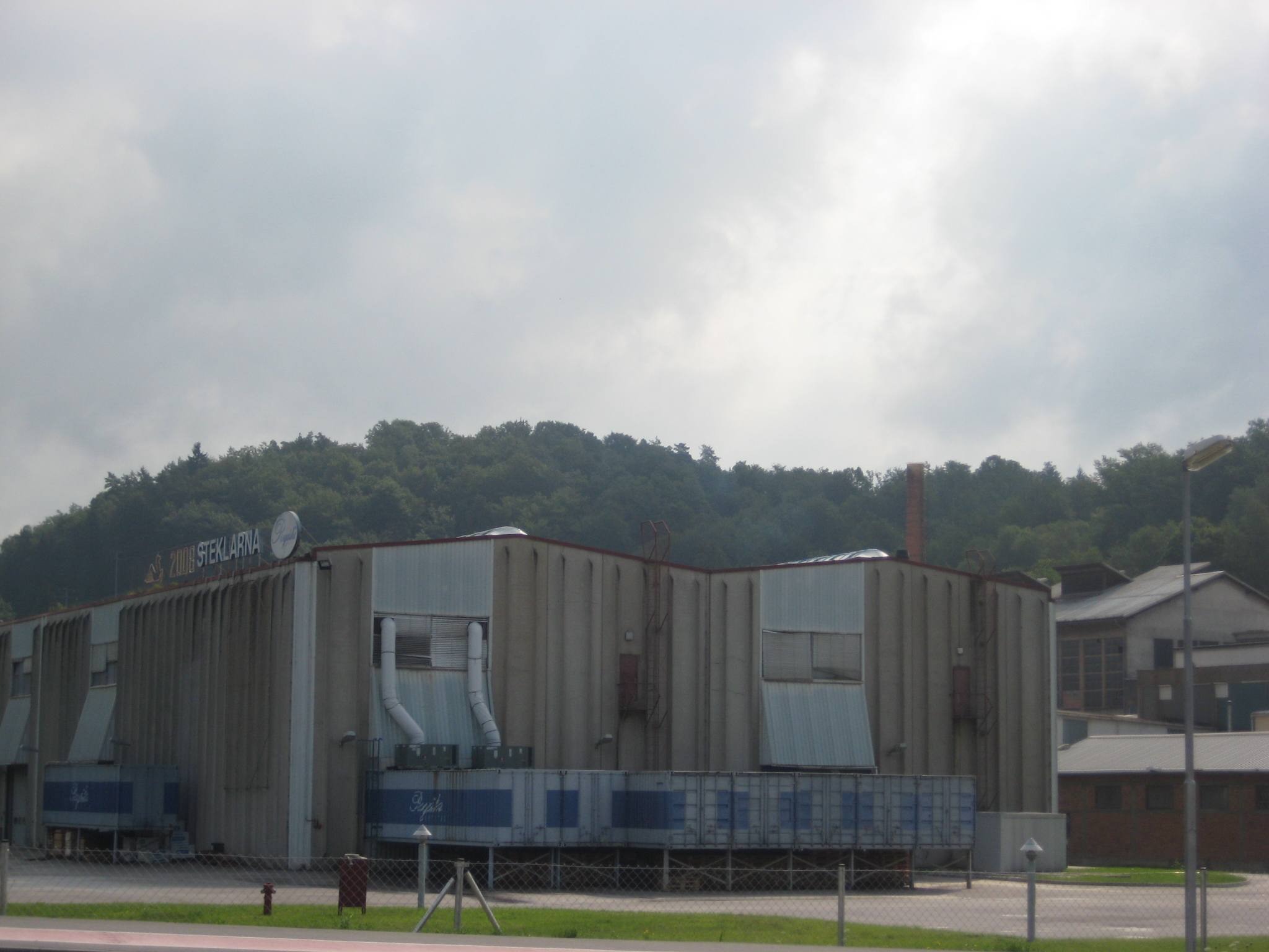 Rogaška Slatina, Slovenia. Crystal glass factory